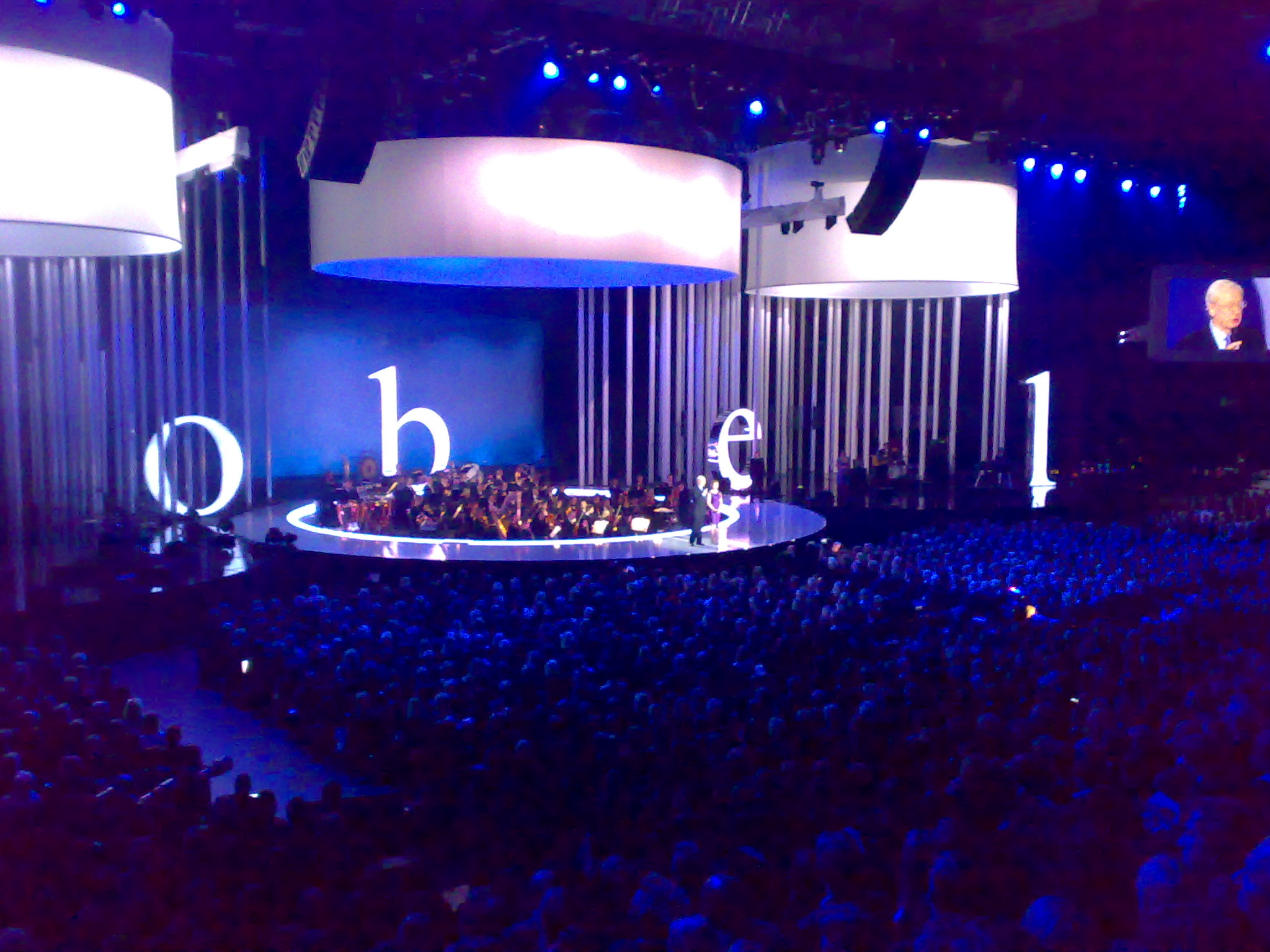 Nobel Peace price Concert 2008, Oslo Spektrum, Michael Caine and Scarlett Johanson